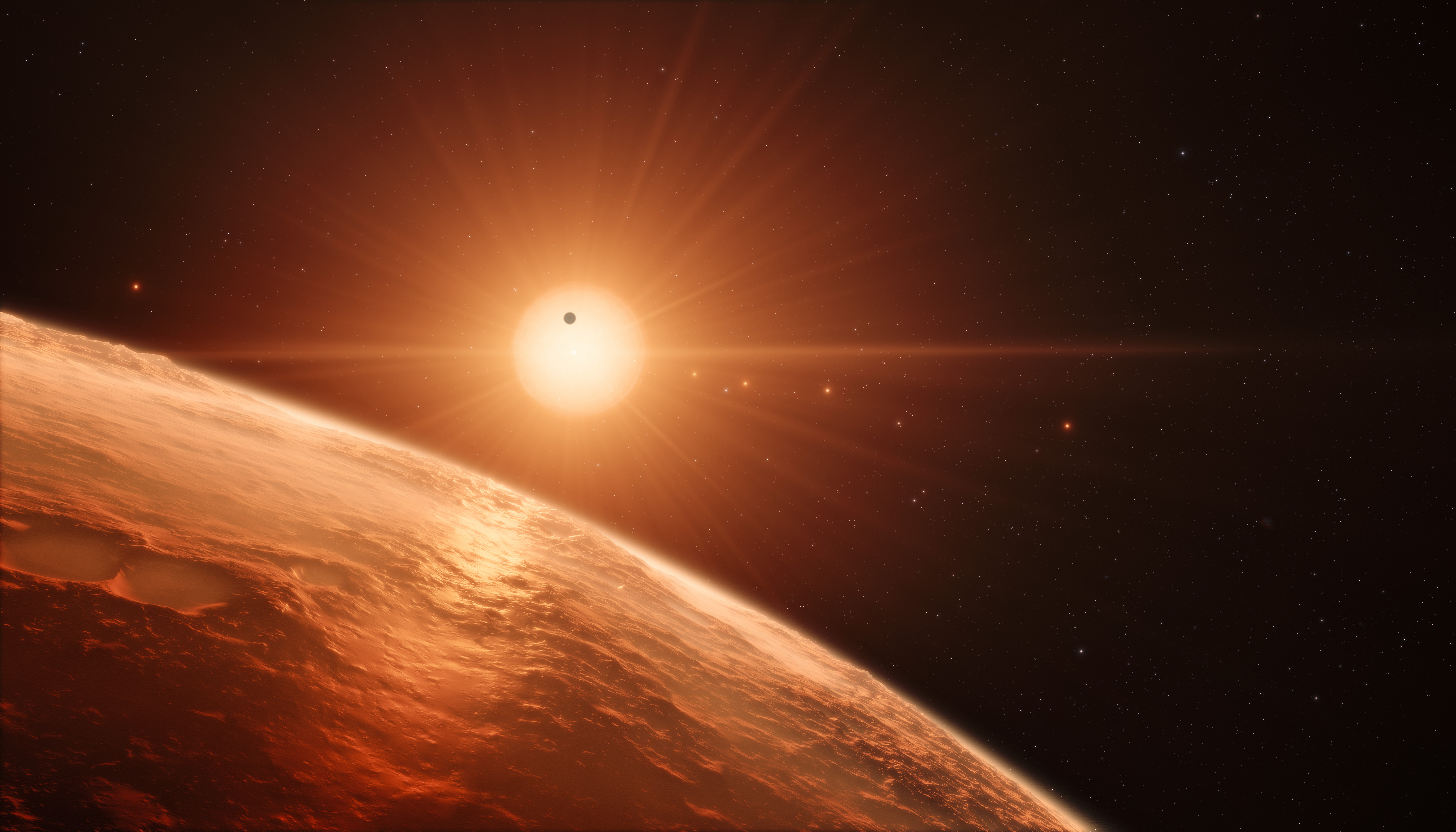 This artist’s impression shows the view from the surface of one of the planets in the TRAPPIST-1 system. At least seven planets orbit this ultra cool dwarf star 40 light-years from Earth and they are all roughly the same size as the Earth. They are at the right distances from their star for liquid water to exist on the surfaces of several of them. This artist’s impression is based on the known physical parameters for the planets and stars seen, and uses a vast database of objects in the Universe.